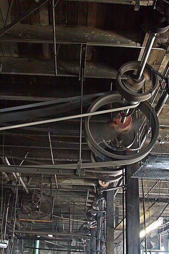 Soule Live Steam Festival / Railfest